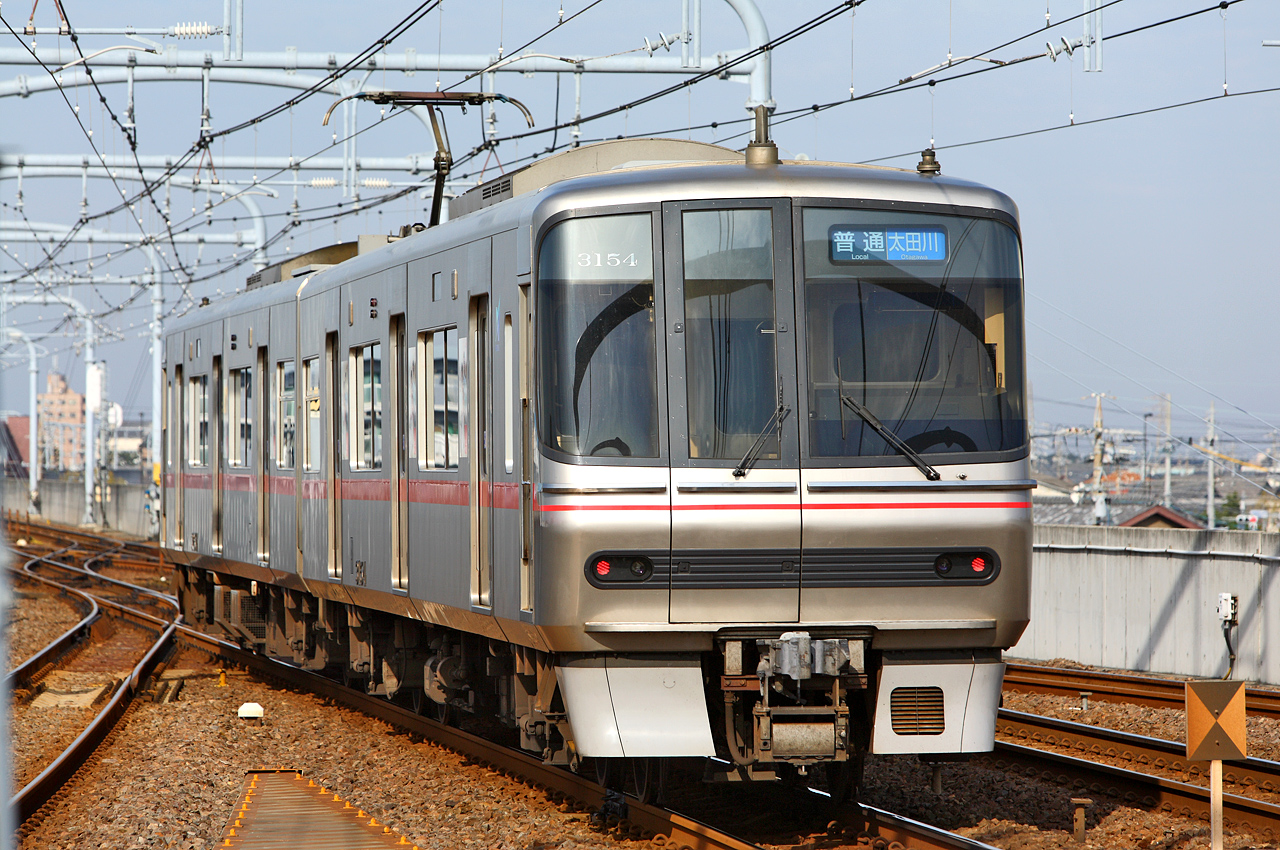 Meitetsu 3150 series EMU ( 3154F at Tokoname Sta. )